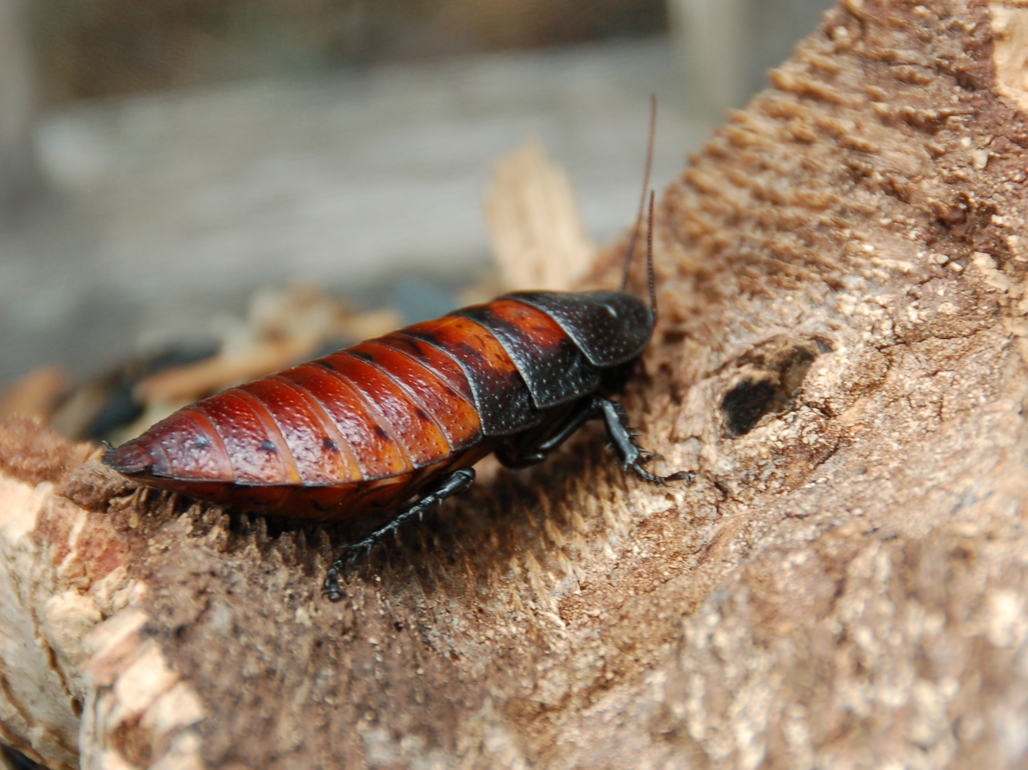 Juvenile, Madagascar hissing cockroach at the Atlanta Botanical Garden. Taken 9/23/2007.